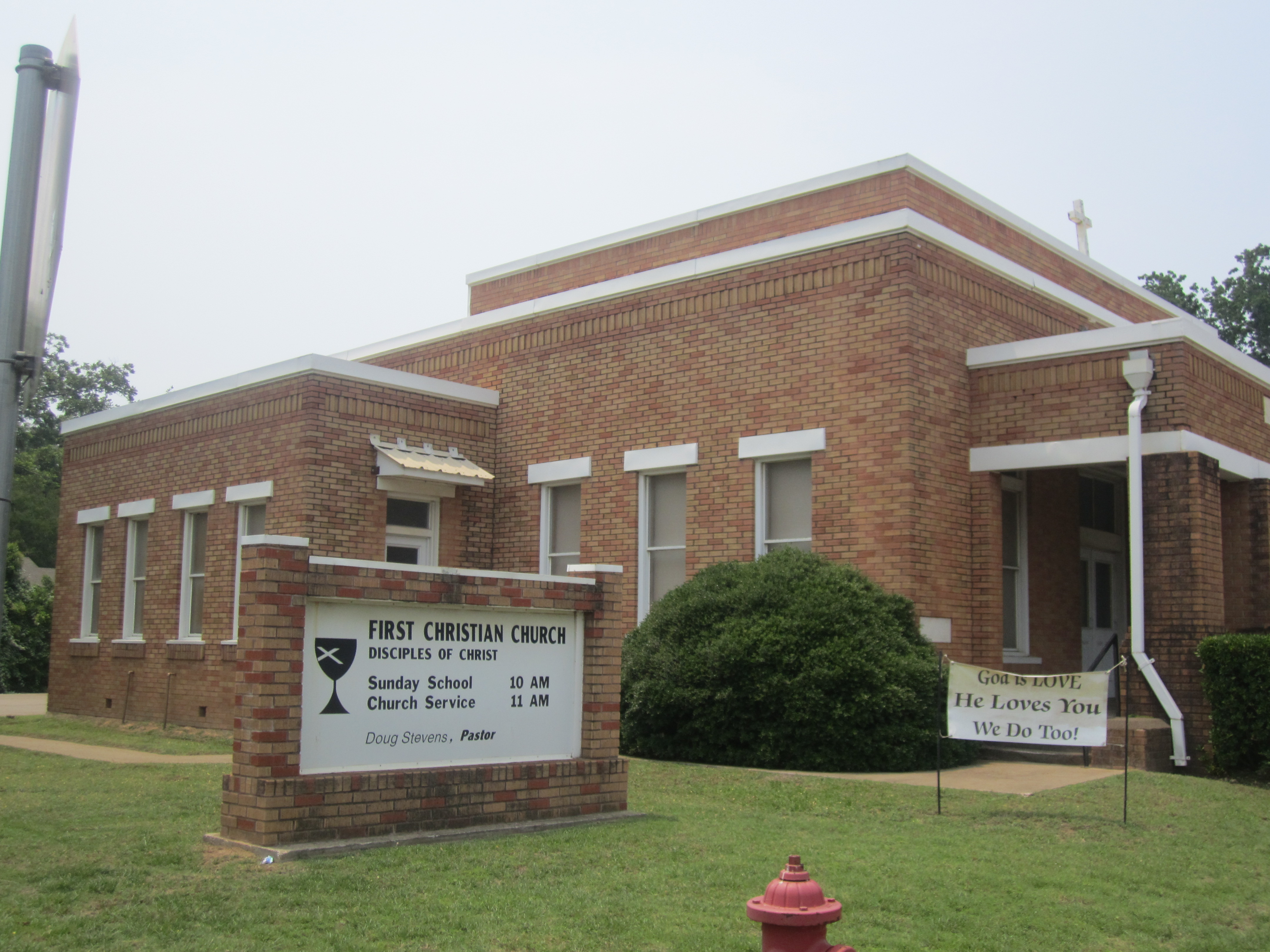 I took photo with Canon camera in Oakwood, TX.